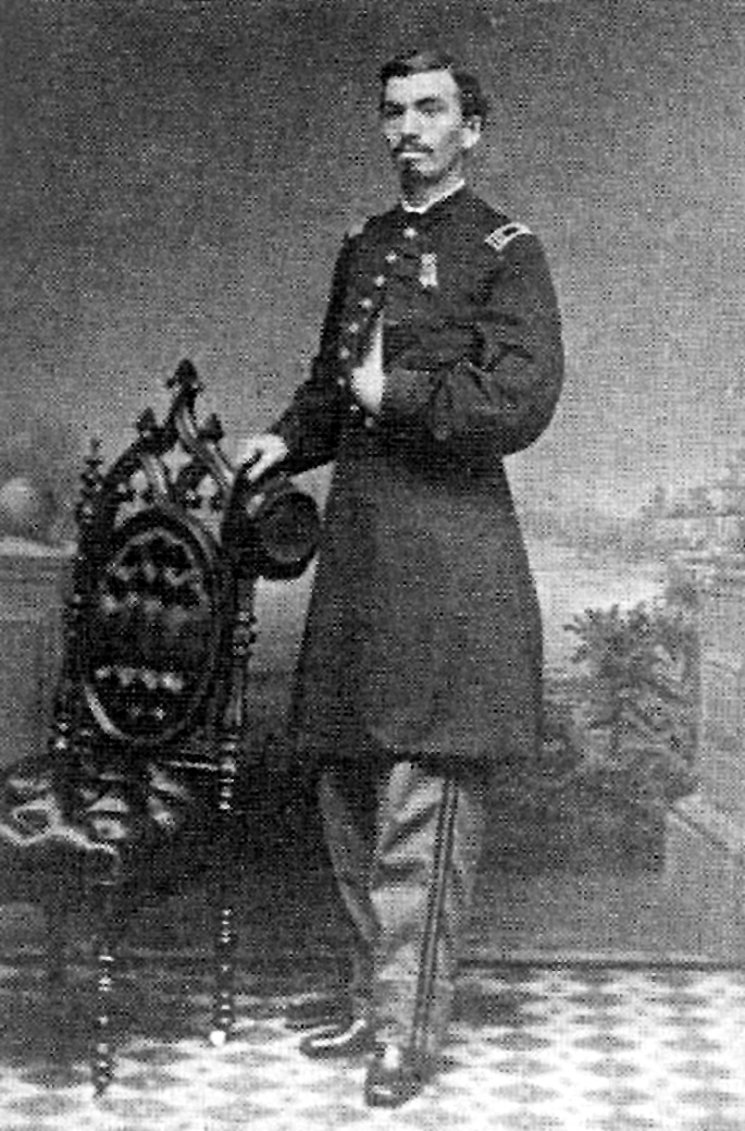 Samuel Alfred Craig, US Representative from Pennsylvania